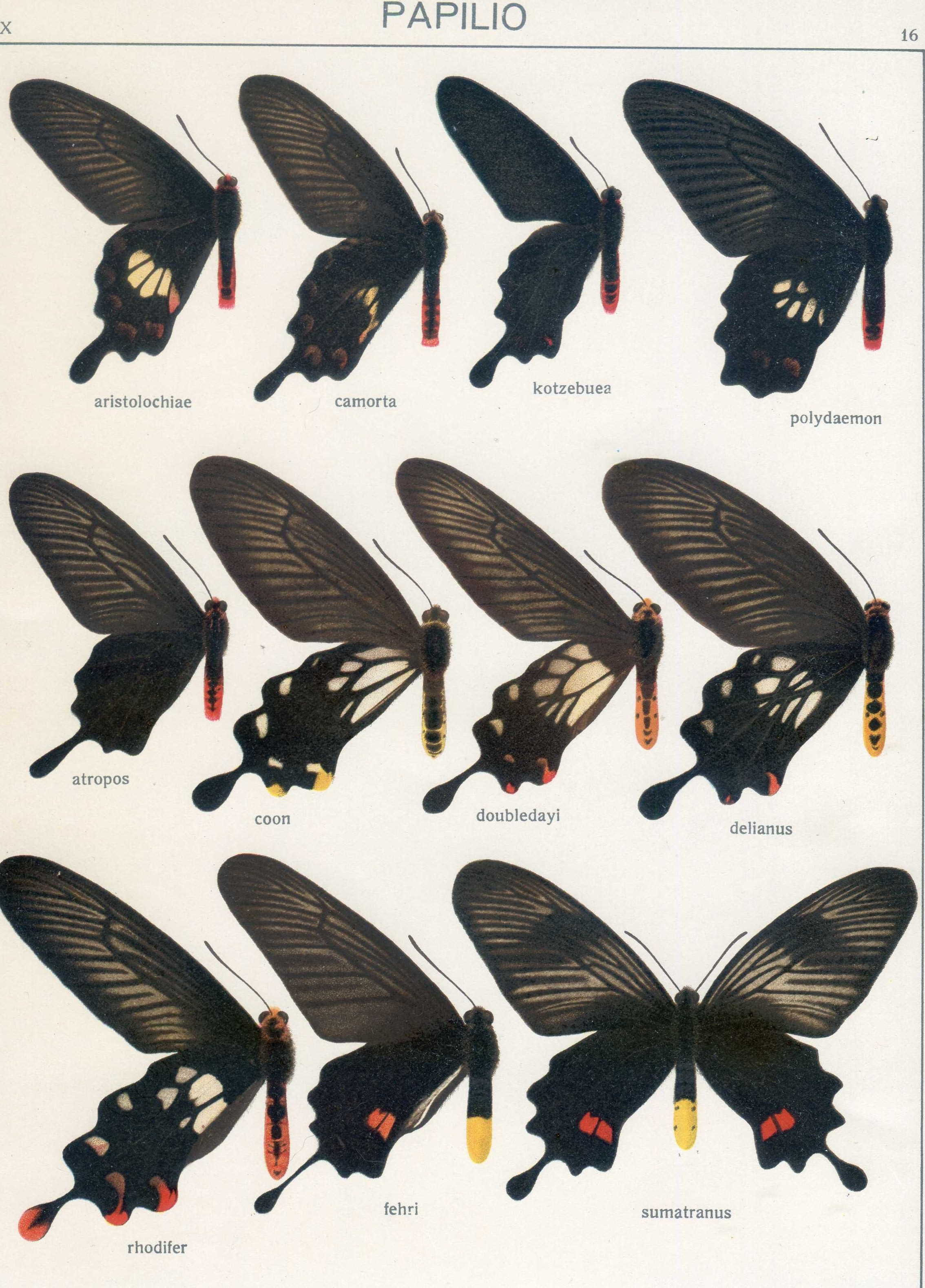 a.1., a.2.: Common Roses, upperwings; a.3.: Pink Rose, upperwing; a.4.: Red-bodied Swallowtail, upperwing b. Papilio atropos Stgr. = Atrophaneura atropos (Staudinger, 1888), upperwing Papilio coon F. f. coon F. = Atrophaneura coon coon (Fabricius, 1793), upperwing Papilio coon F. f. doubledayi Wall. = Atrophaneura coon doubledayi (Wallace, 1865), upperwing Papilio coon F. f. delianus Fruhst. = Atrophaneura coon delianus (Fruhstorfer, 1895), upperwing